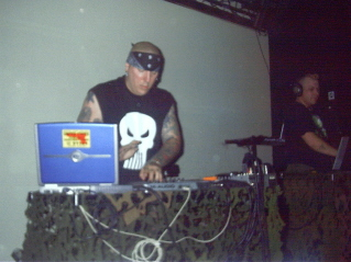 Author: Gregg M. Oberlin